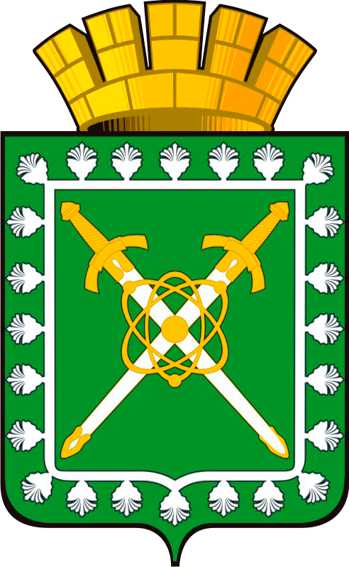 Coat of Arms Lesnoy, Sverdlovsk Region, Russia